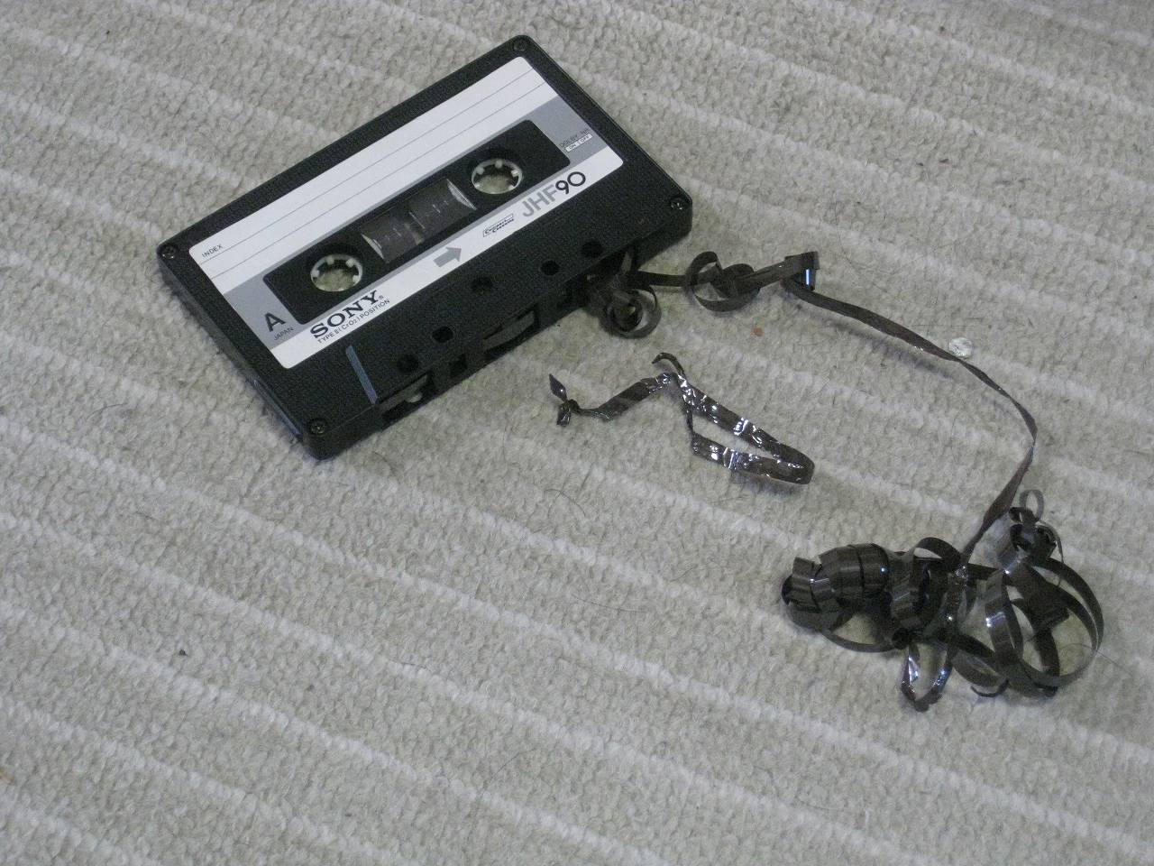 A Sony JHF 90 cassette with some torn tape out.